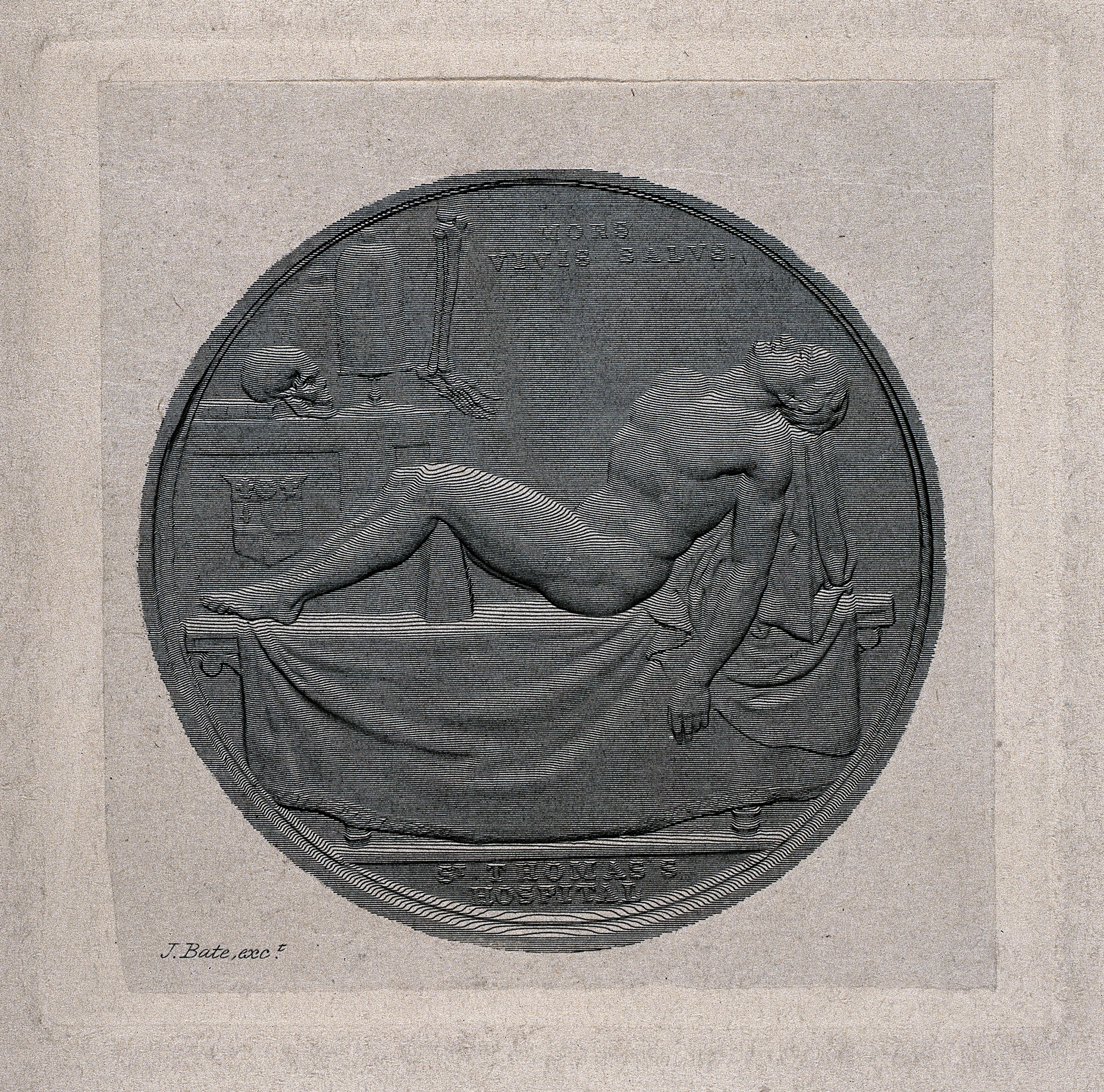 Old St. Thomas's Hospital: a cadaver, a skull, bones of the lower leg and foot, and two bell-jars on stands. Engraving by A. R. Freebairn, n.d., after a medallion by W. Wyon, 1829. Iconographic Collections Keywords: ic; Alfred Robert Freebairn; William Wyon